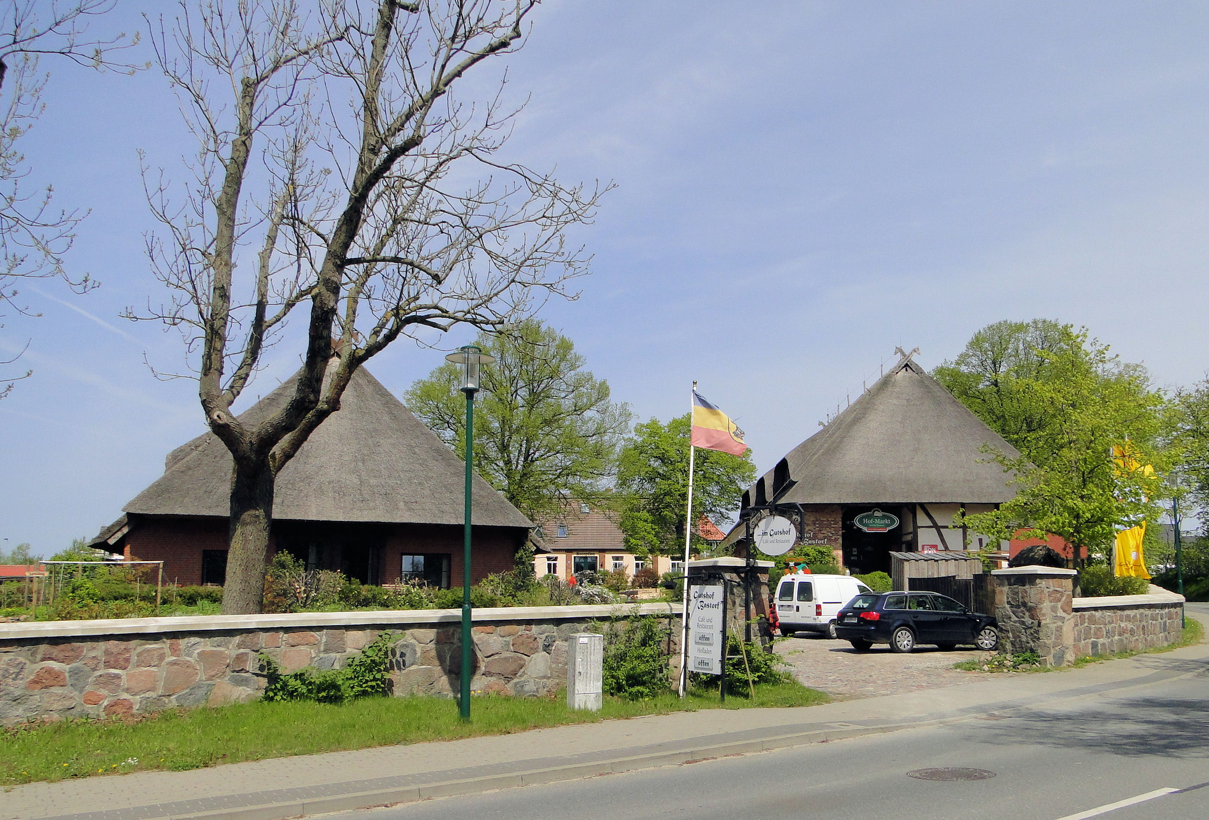 Manor in Bastorf, disctrict Bad Doberan, Mecklenburg-Vorpommern, Germany